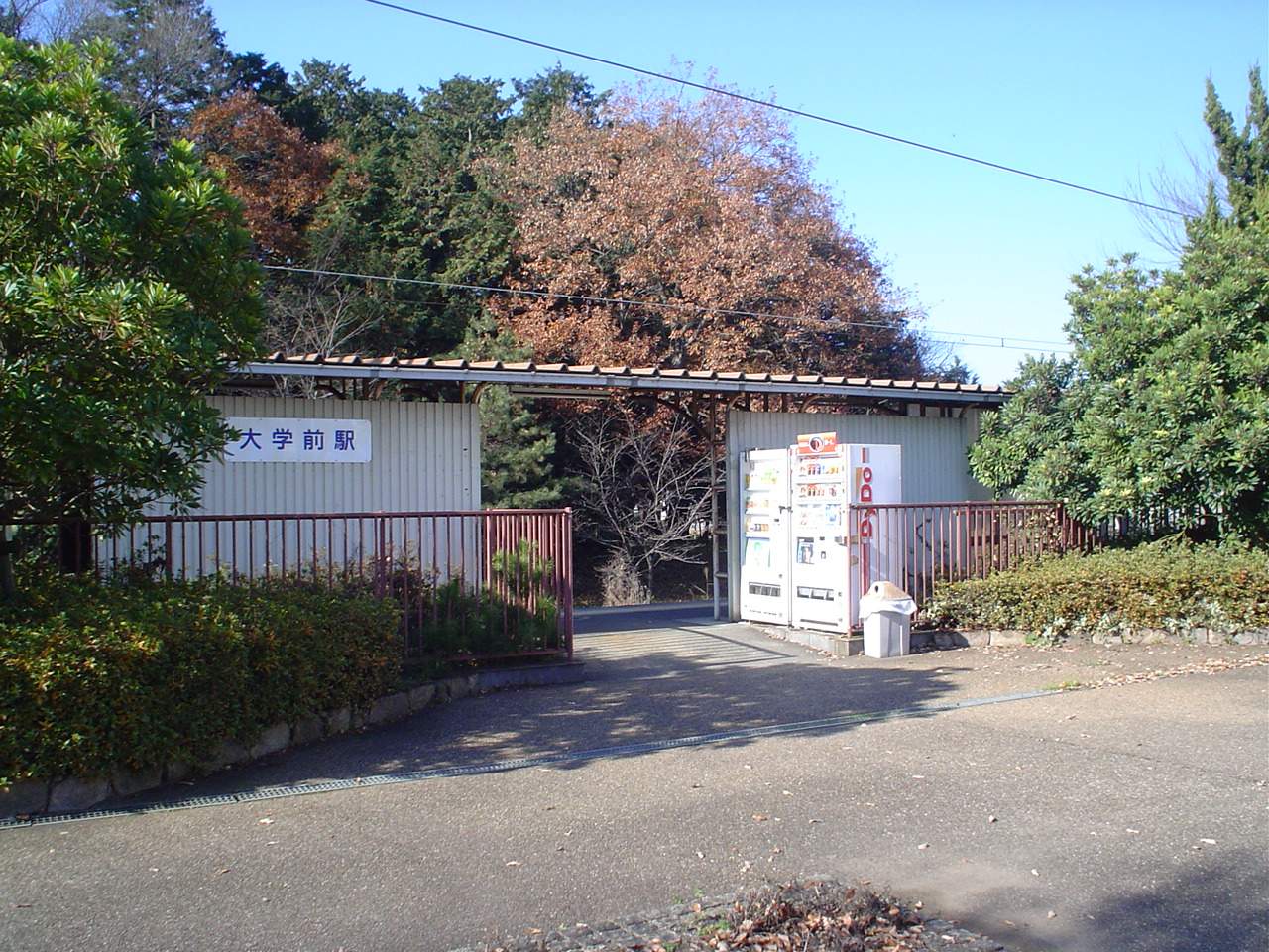 Daigaku-mae Station in shiga pref, japan